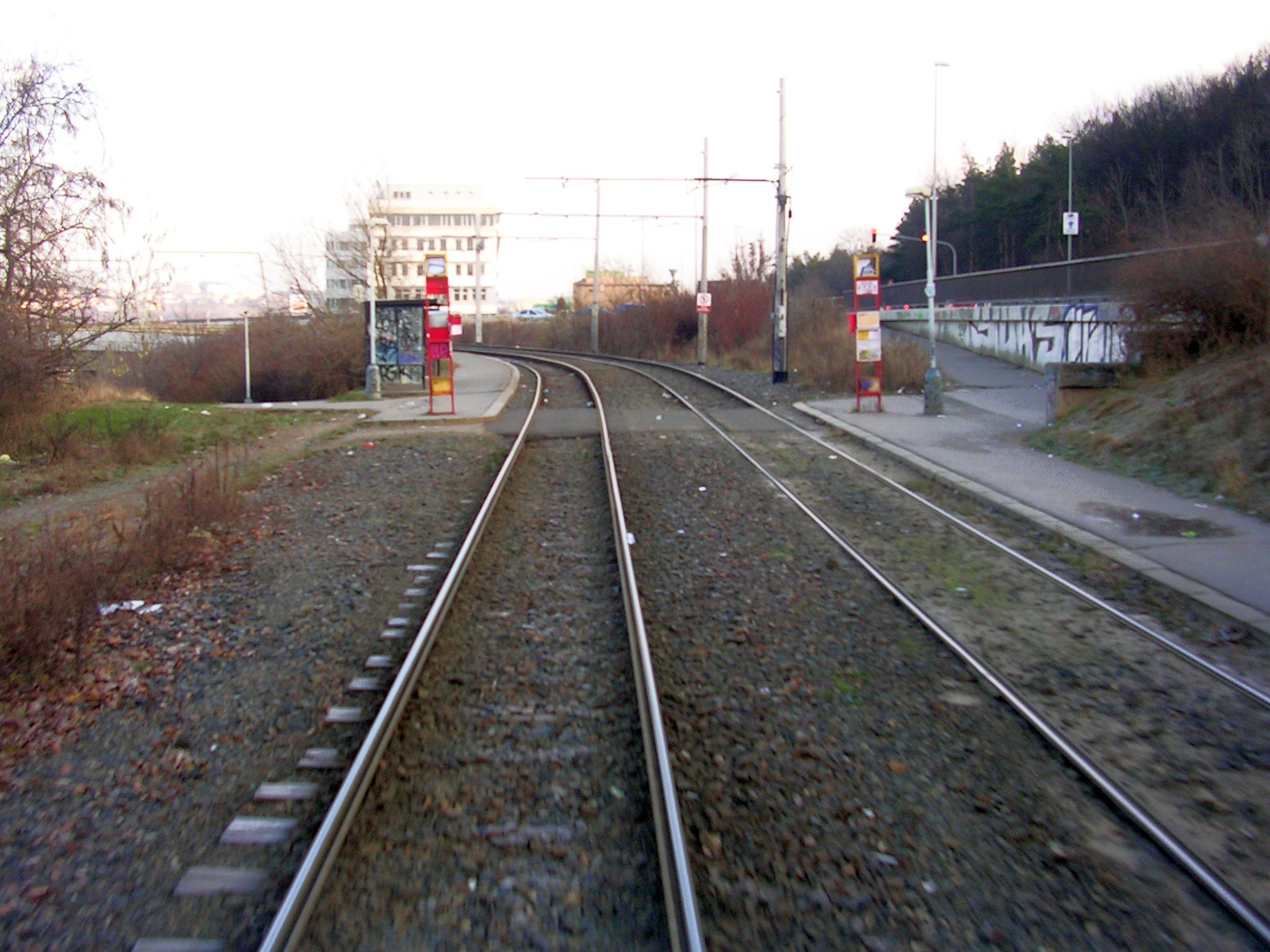 Žižkov, Prague, the Czech Republic. Tram track Ohrada – Palmovka. - OpenStreetMap (Info)